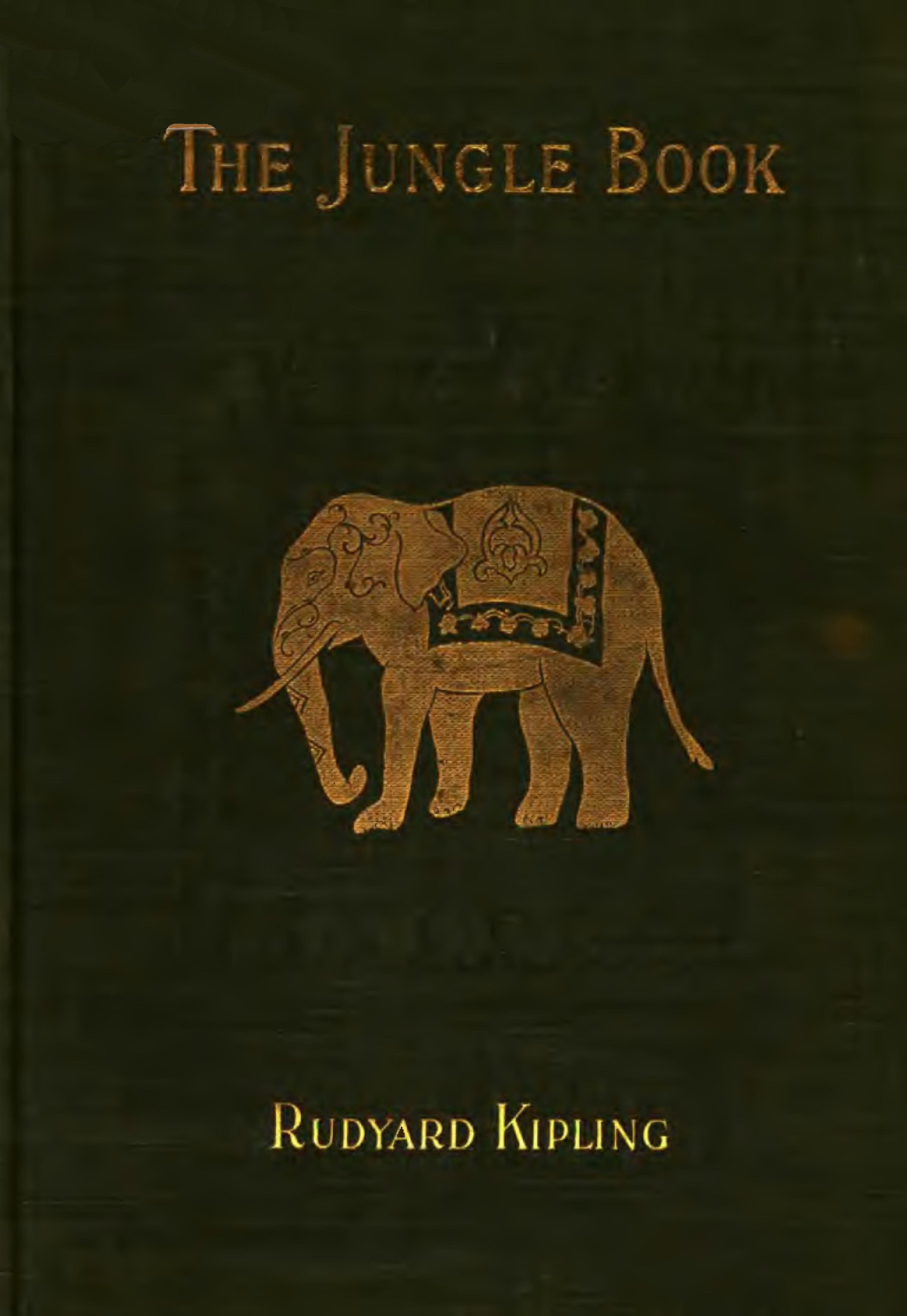 The Jungle Book (1894) cover image, The Century Co.